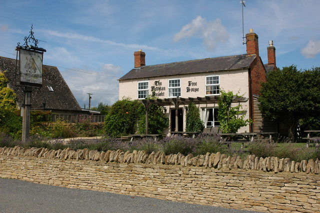 The Norman Knight pub, Whichford, Warwickshire, seen from the southeast